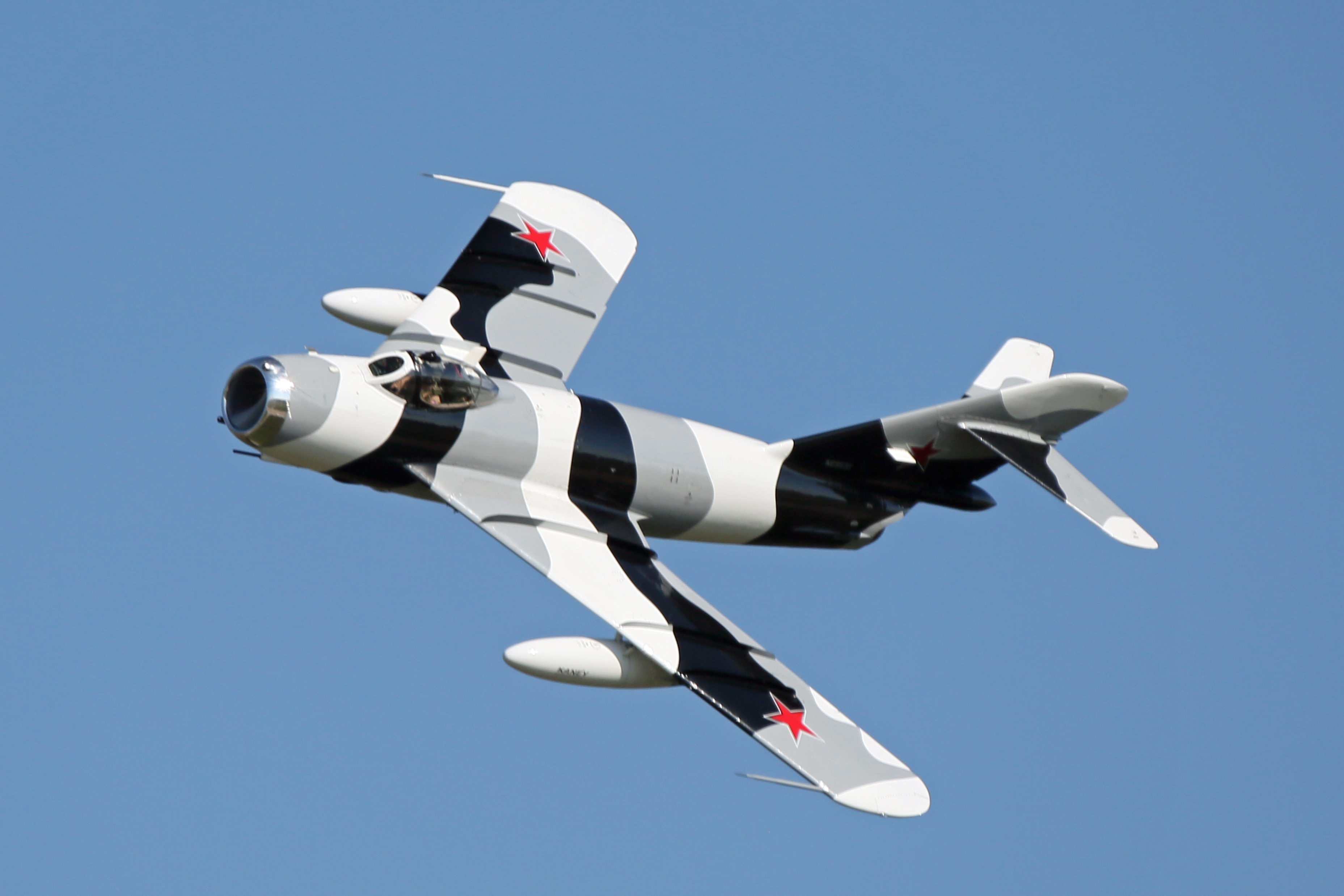 Mikoyan-Gurevich MiG-17